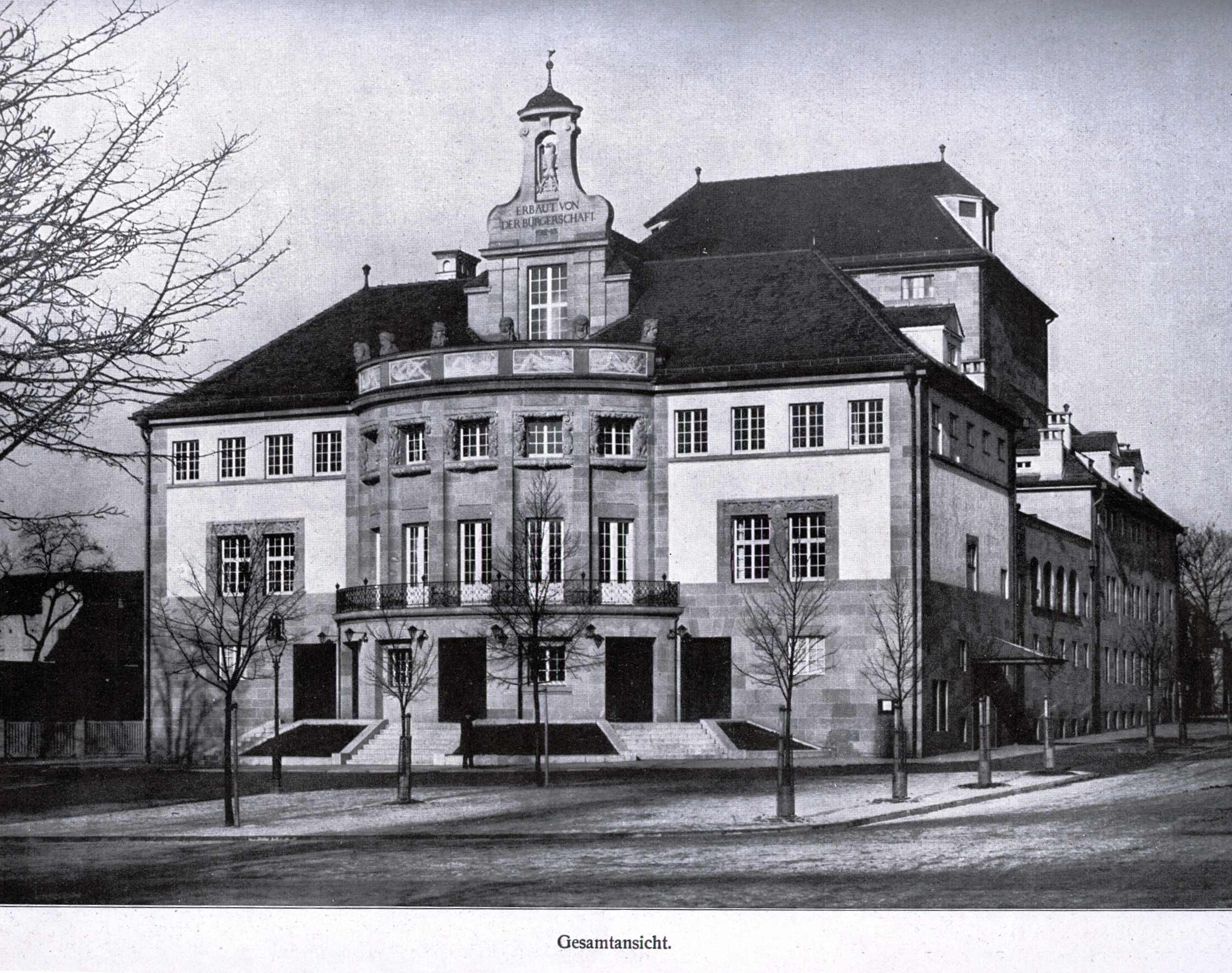 Heilbronn, Altes Theater, Gesamtansicht von Osten, Entwurf Theodor Fischer (1862-1938). Quelle - Hugo Licht, Das Stadttheater in Heilbronn, (Sonderdruck o. Jg. der Zeitschrift für Architektur und Bauwesen - Der Profanbau), Verlag J. J. Arnd, Leipzig 1913.jpg